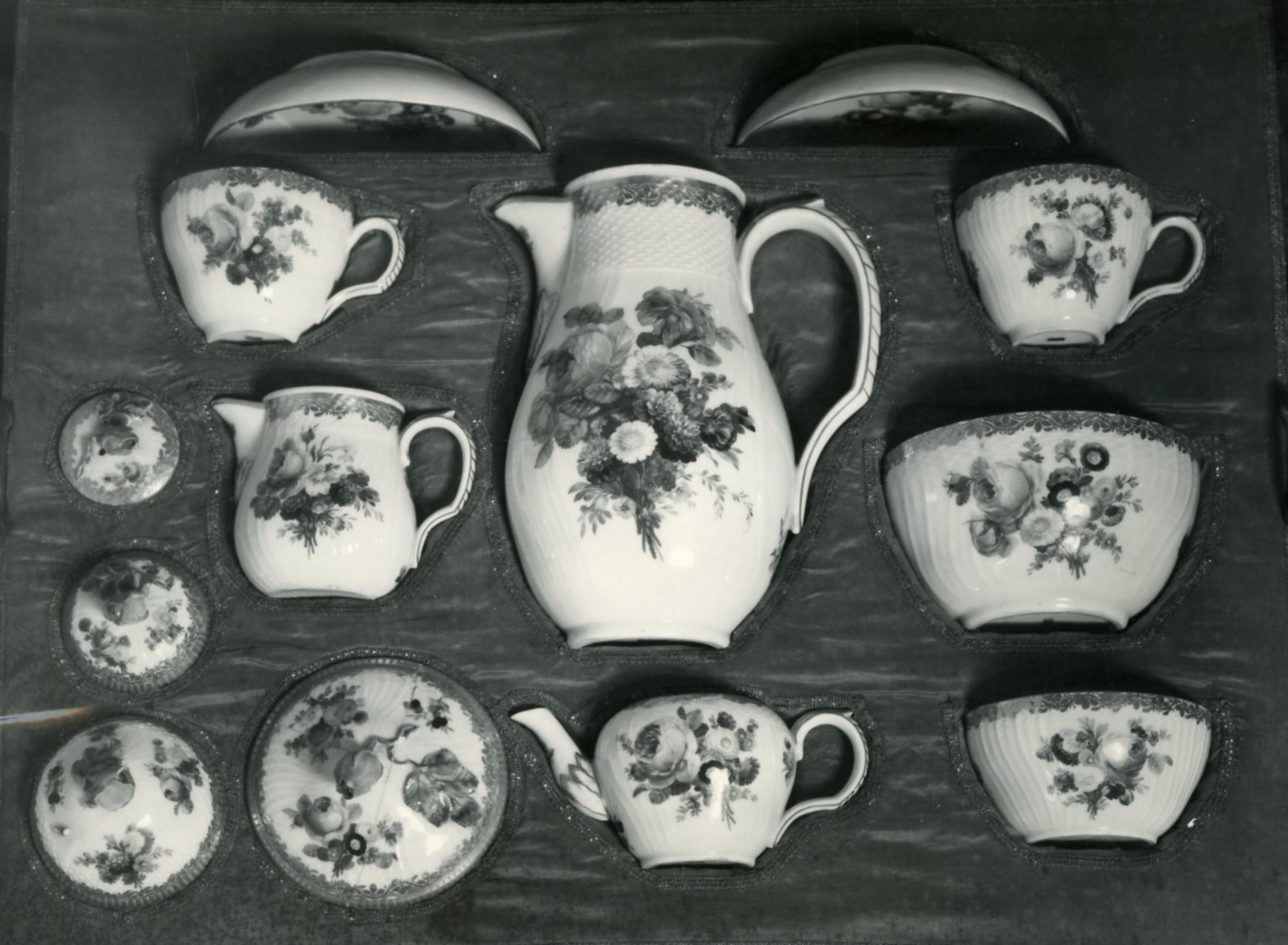 'Royal Copenhagen porcelain from c. 1785